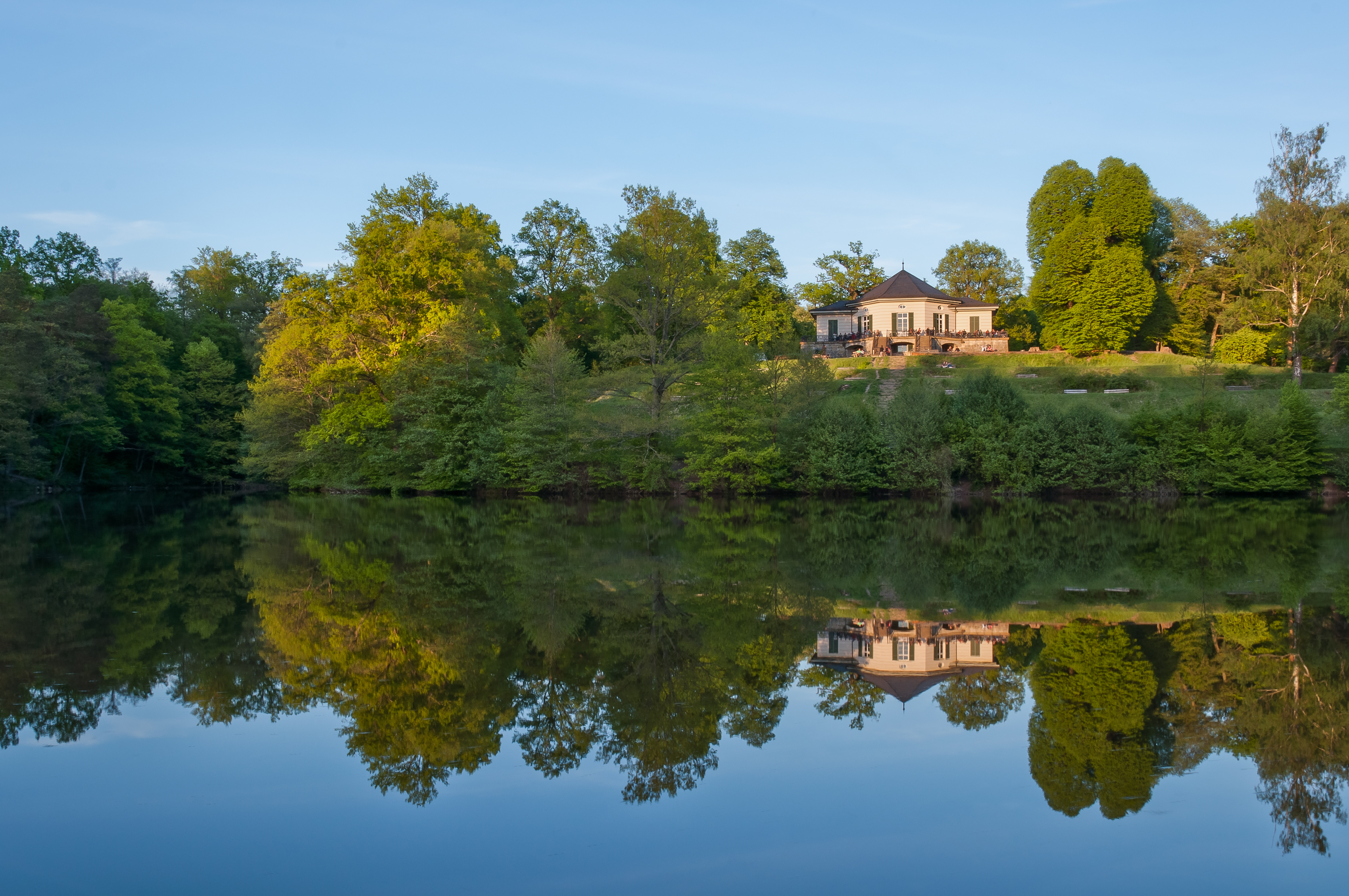 "Bärenschlössle" (bear castle) and "Bärensee" (bear lake) in the natural reserve "Rotwildpark", Stuttgart, Germany.